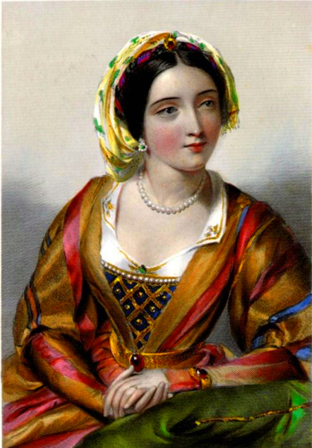 Eleanor of Castile, Queen of England